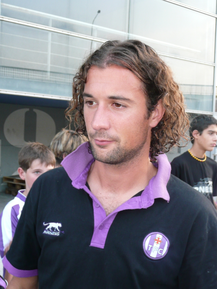 French soccer player Pantxi Sirieix aftar Toulouse-Rennes